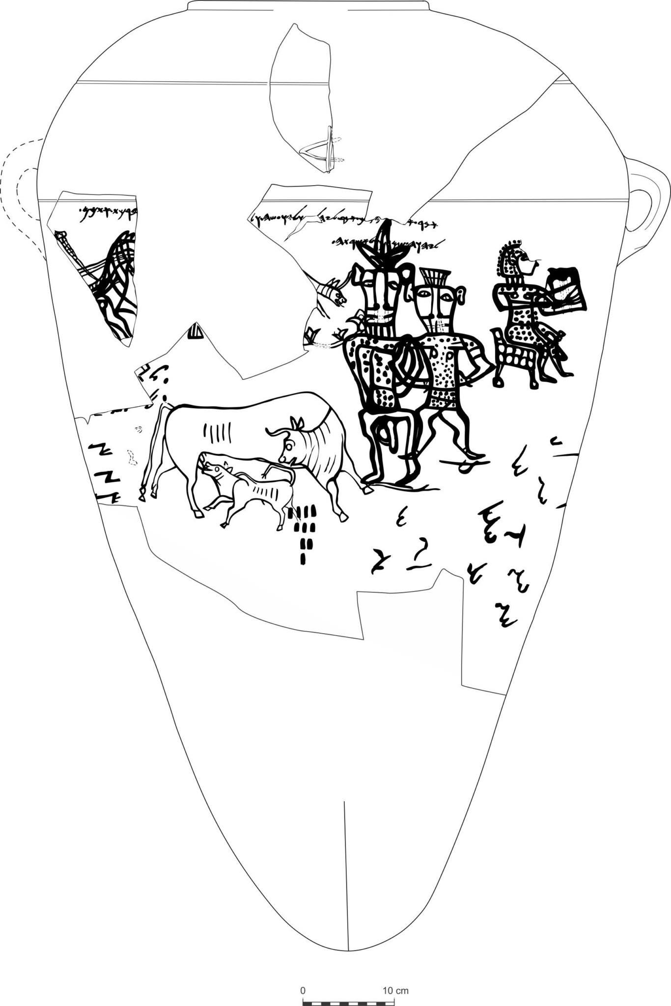 Painted on a jar found in Kuntilat Ajrud in the Sinai Peninsula